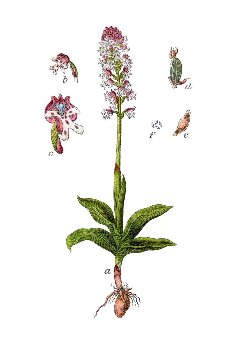 Neotinea ustulata (L.) R.M.Bateman, Pridgeon & M.W.Chase, syn. Orchis ustulata L. Original Caption Gebrannte Orchis, Orchis ustulata